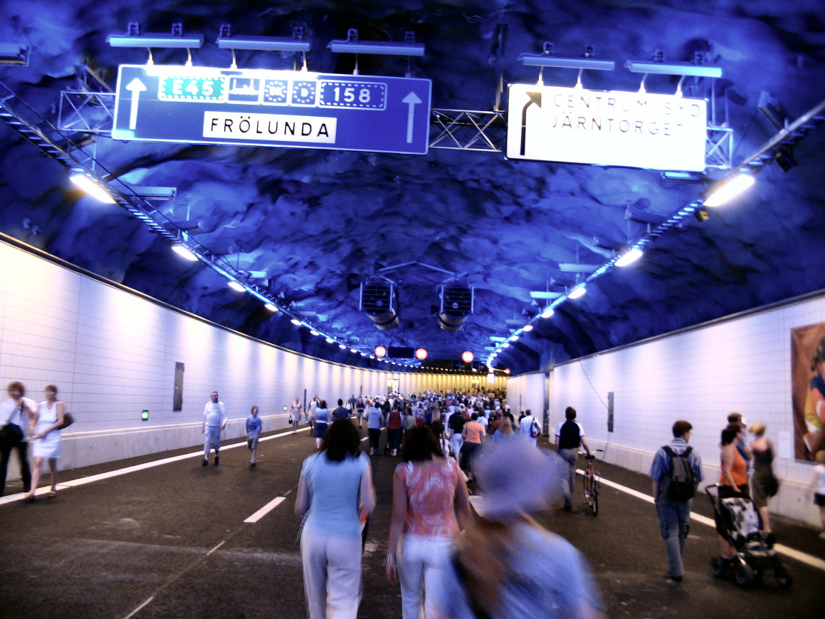 Interior image from the Göta tunnel, Gothenburg, Sweden. Picture taken on the day of inauguration.